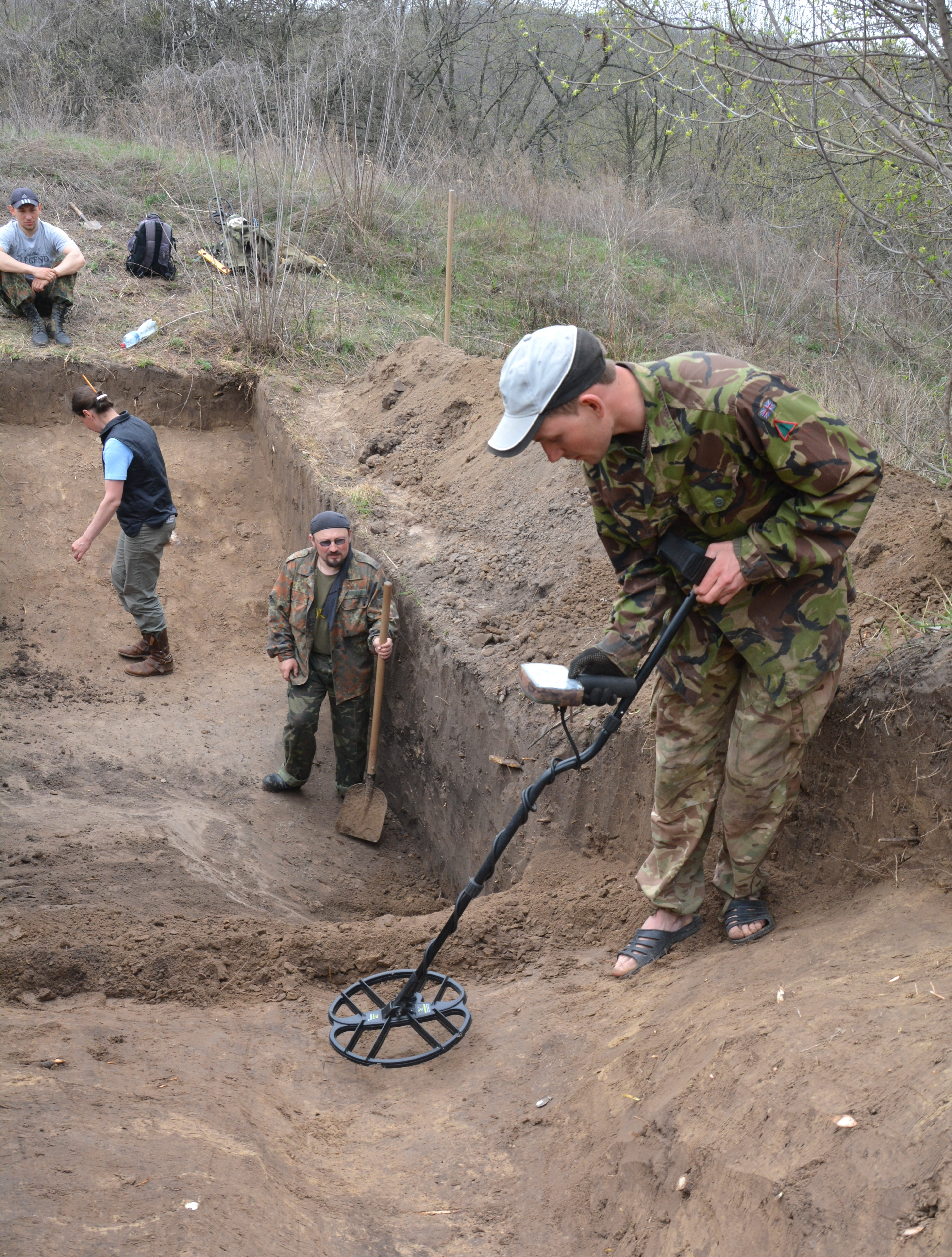 The excavations of Khotiv site of ancient settlement of Scythian time (dated by VI-IV century B.C.) which have been carried out since the beginning of February to the end of May of year of 2016 by members of Inkerman archeological expedition of the Institute of Archeology (of National Academy of Sciences of Ukraine); the expedition is temporary based in Kyiv since the occupation of Crimea by Russia. Khotiv settlement is located in Khotiv village in the suburban zone of Kyiv city and borders straight upon historical neighborhood of Feofaniya. The settlement is the farthest one located to the north among Scythian settlements in the Right-bank Ukraine and was given with the status of immovable monument of Ukraine of national importance in the year of 1965. During the excavations in February-May 2016 the archeologists explored the surface and the cultural stratum of the settlement, the remains of a number of the protecting walls, found the ancient rising entrance to the settlement with the remains of burned stone and wooden constructions, the surrounding moat and small bridge-ramp, the reinforced slope, the remains of the pillar constructions, etc. The scientists found also the steles, a lot of arrowheads, the fragments of ceramic kitchen utensils and tableware, other ceramic and stone handicrafts, the remains of ancient manufacture, the fragments of human and animal bones, etc. The completed excavations and explorations have also resulted in the creation and issuing of upgraded official passport of the Khotiv archeological monument with updated and more precise borders and the plan of the settlement and the official registration of the upgraded passport in the Ministry of Culture of Ukraine. In the picture: the members of archeological expedition in the process of excavations and exploration of ancient rising entrance to the settlement with the remains of burned stone and wooden constructions and the bridge-ramp (April 2016).